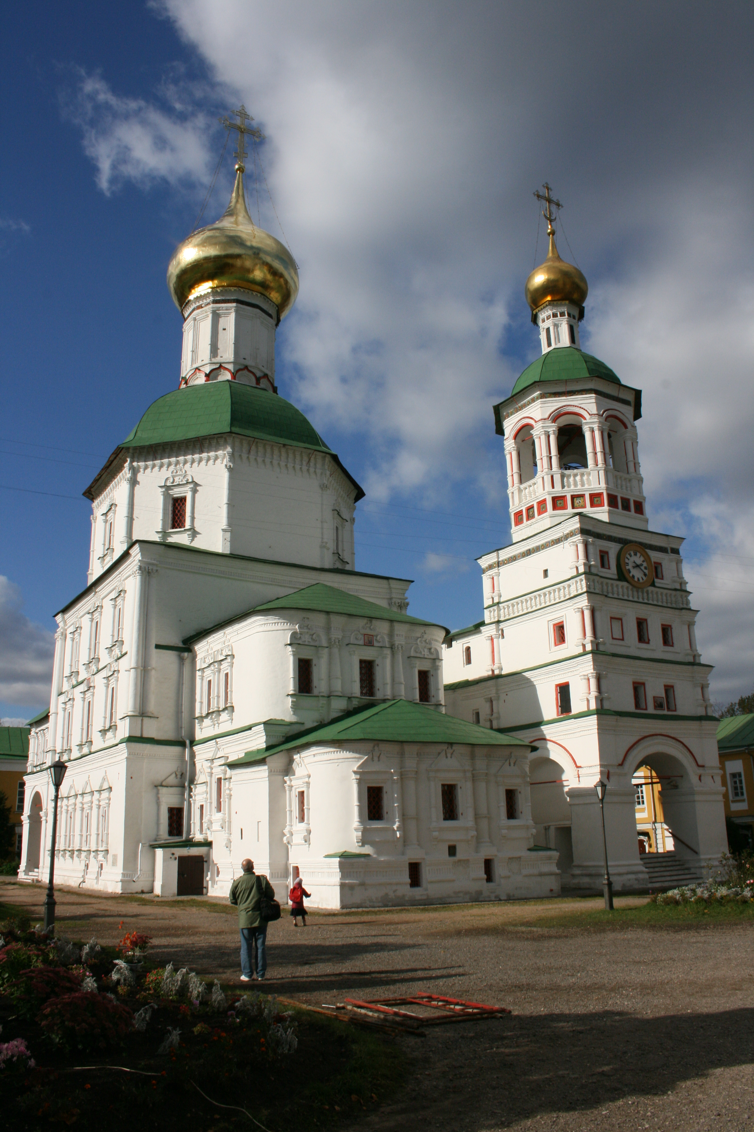 Nikolsky temple of Nikolo-Perervinsky Monastery